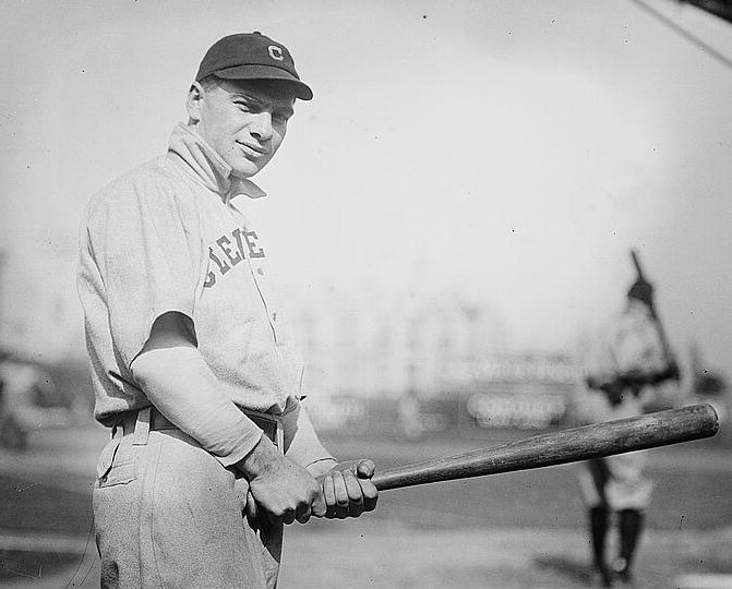 American professional baseball player Ted Easterly.